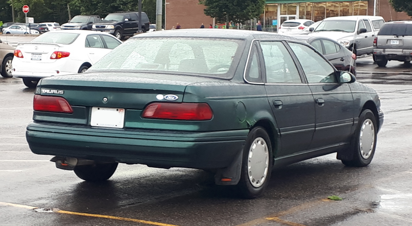 1993-1995 Ford Taurus GL Sedan photographed in Sault Ste. Marie, Ontario, Canada